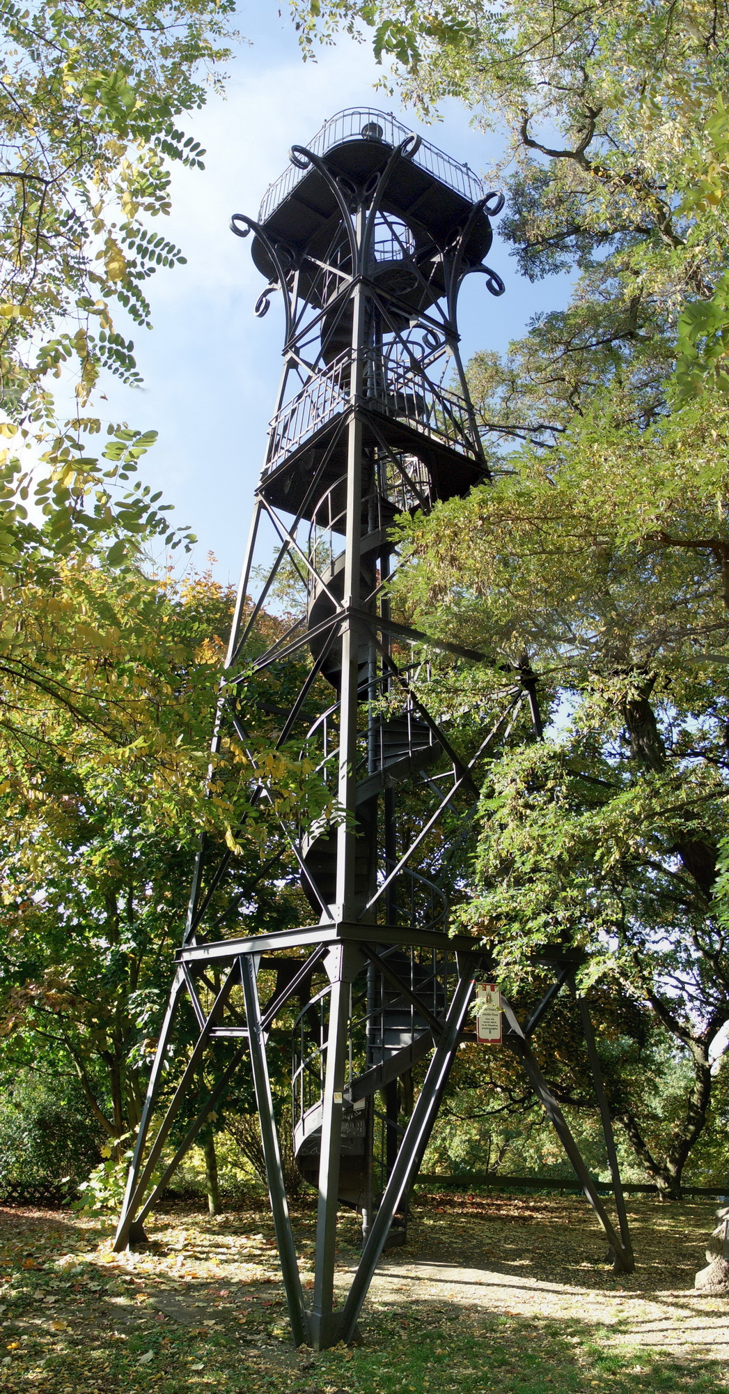 Kaiser-Friedrich-Turm in Vallendar